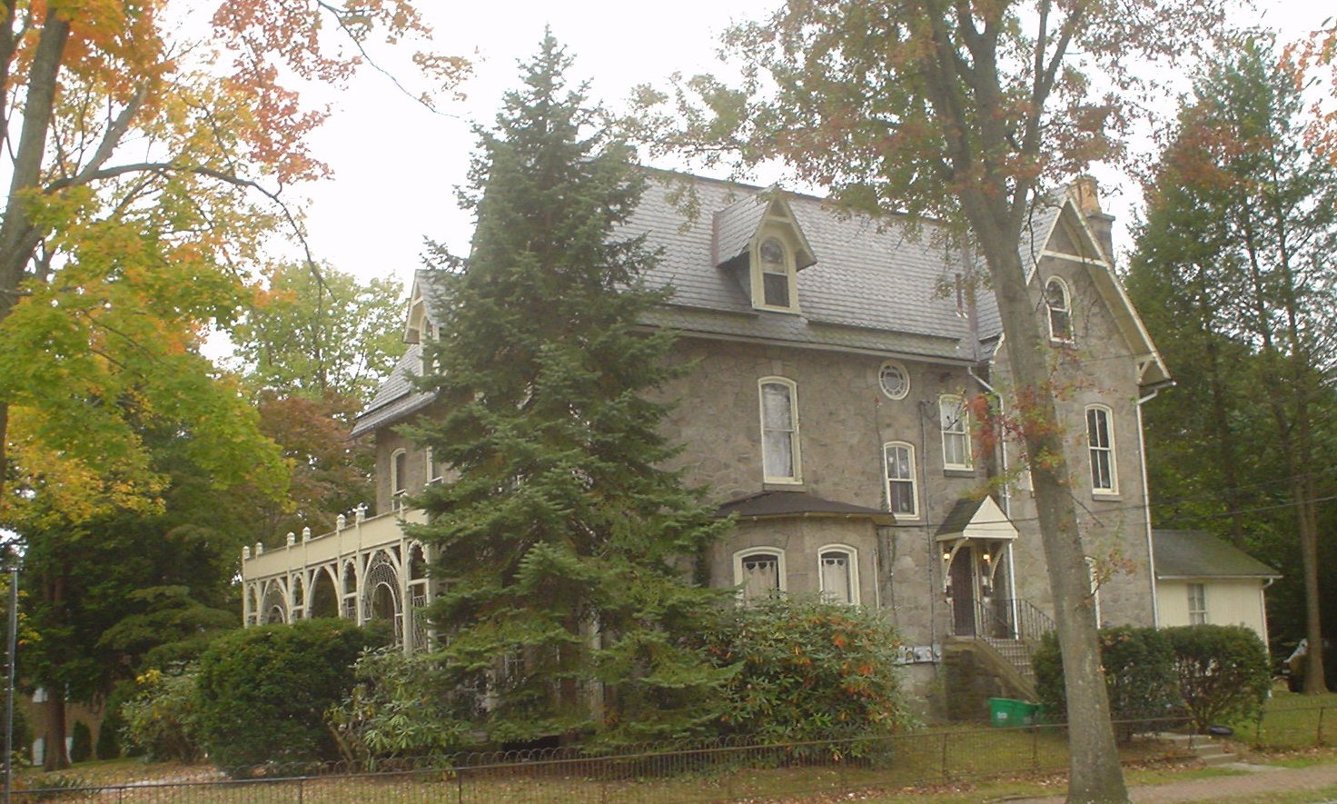 Dr. Risley House (NRHP) Monroe Street, Media, PA.